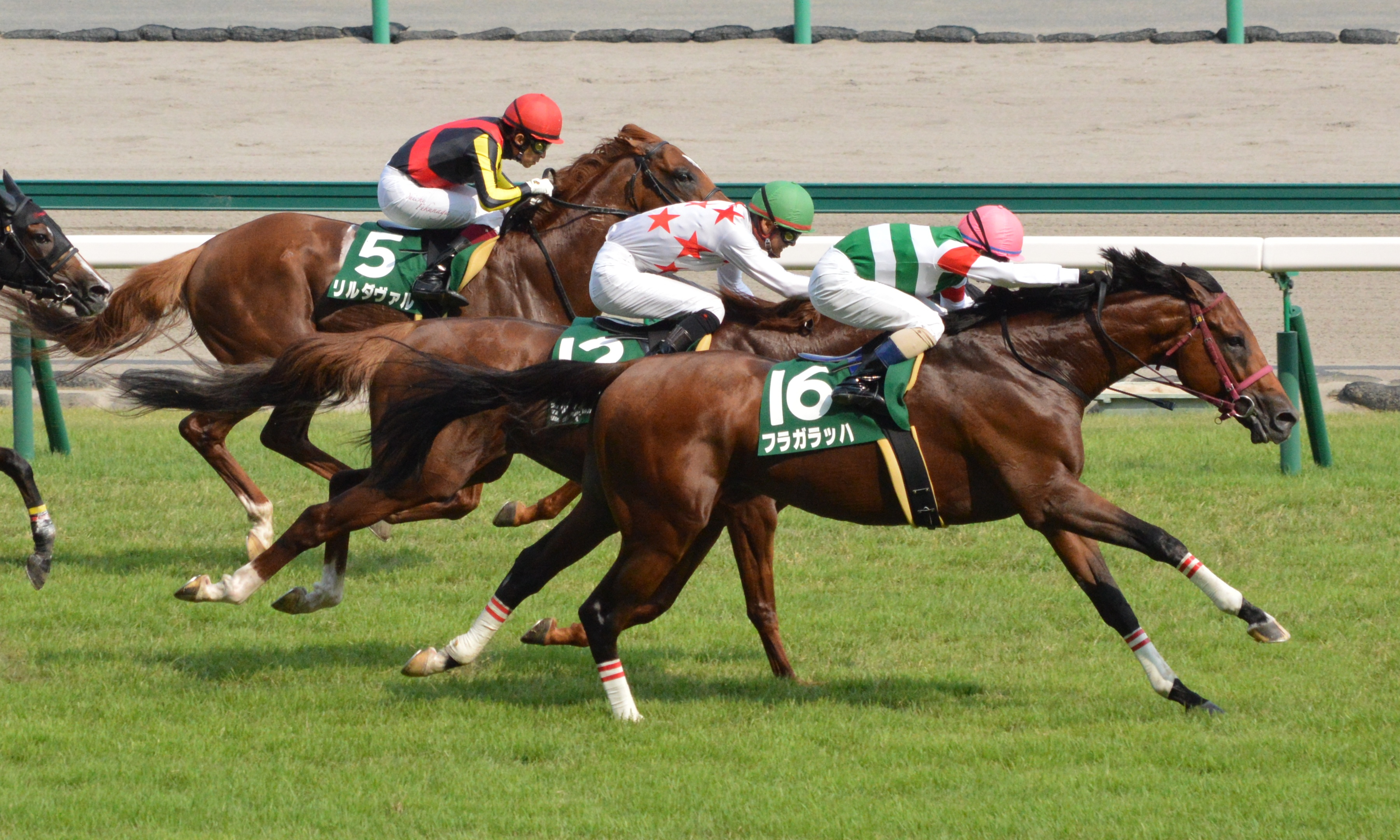 Japanese race horse Fragarach at Chukyo racecourse. Chukyo (JPN) 21 Jul 2013 Toyota Sho Chukyo Kinen (Grade 3 Handicap) (Turf) (3yo+) 1m Firm RankHorse NameOddsAgeWgtTrainerJockey1stFragarach (JPN)109/10H69-0Mikio MatsunagaRyo Takakura2ndMikki Dream (JPN)45/1H69-0Hidetaka OtonashiKeisuke Dazai3rdL'Ile D'Aval (JPN)51/10H69-0Yasutoshi IkeeYuichi Fukunaga4th - 15th/omission